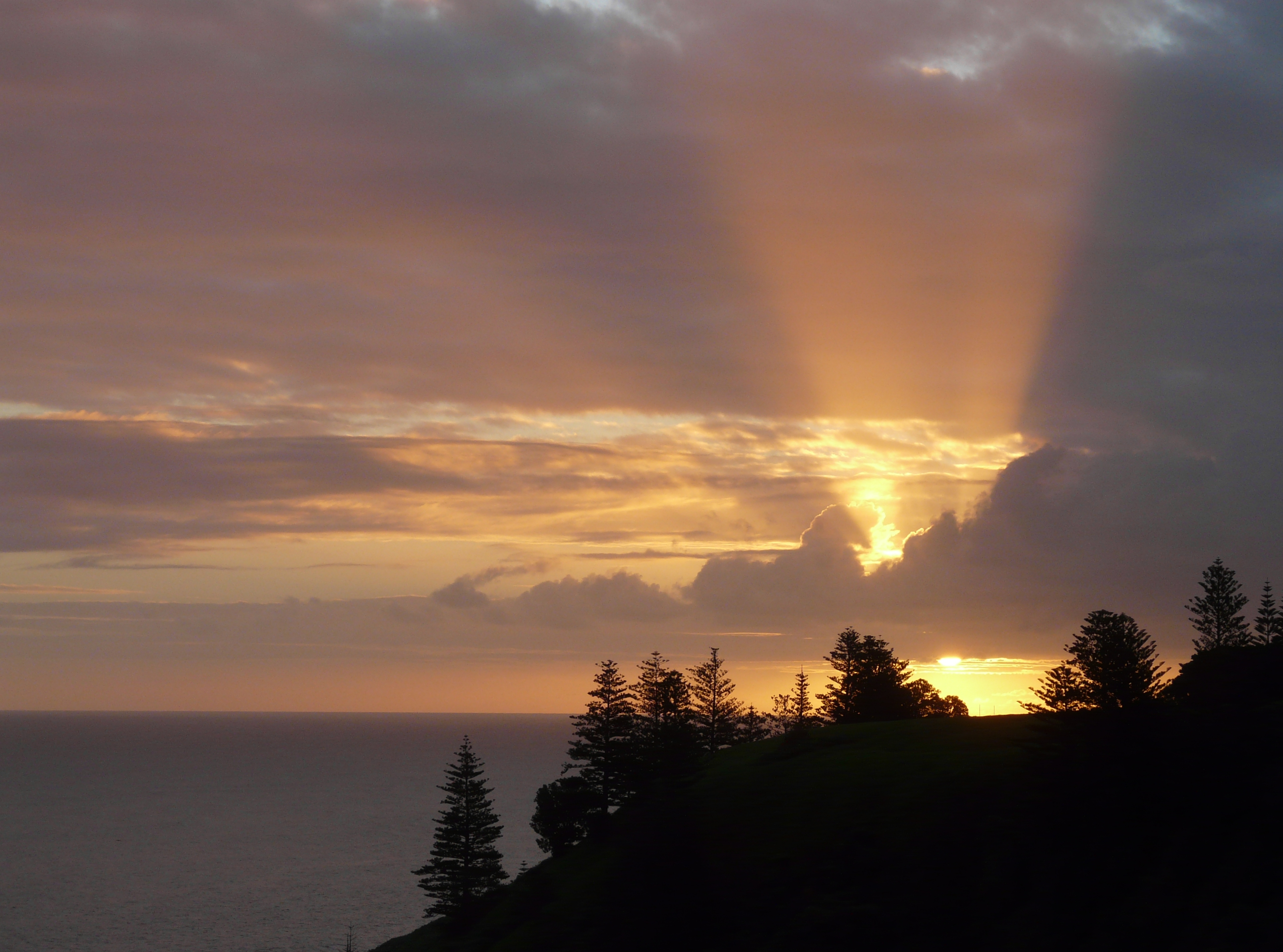 Sunset from Anson Bay, Norfolk Island.